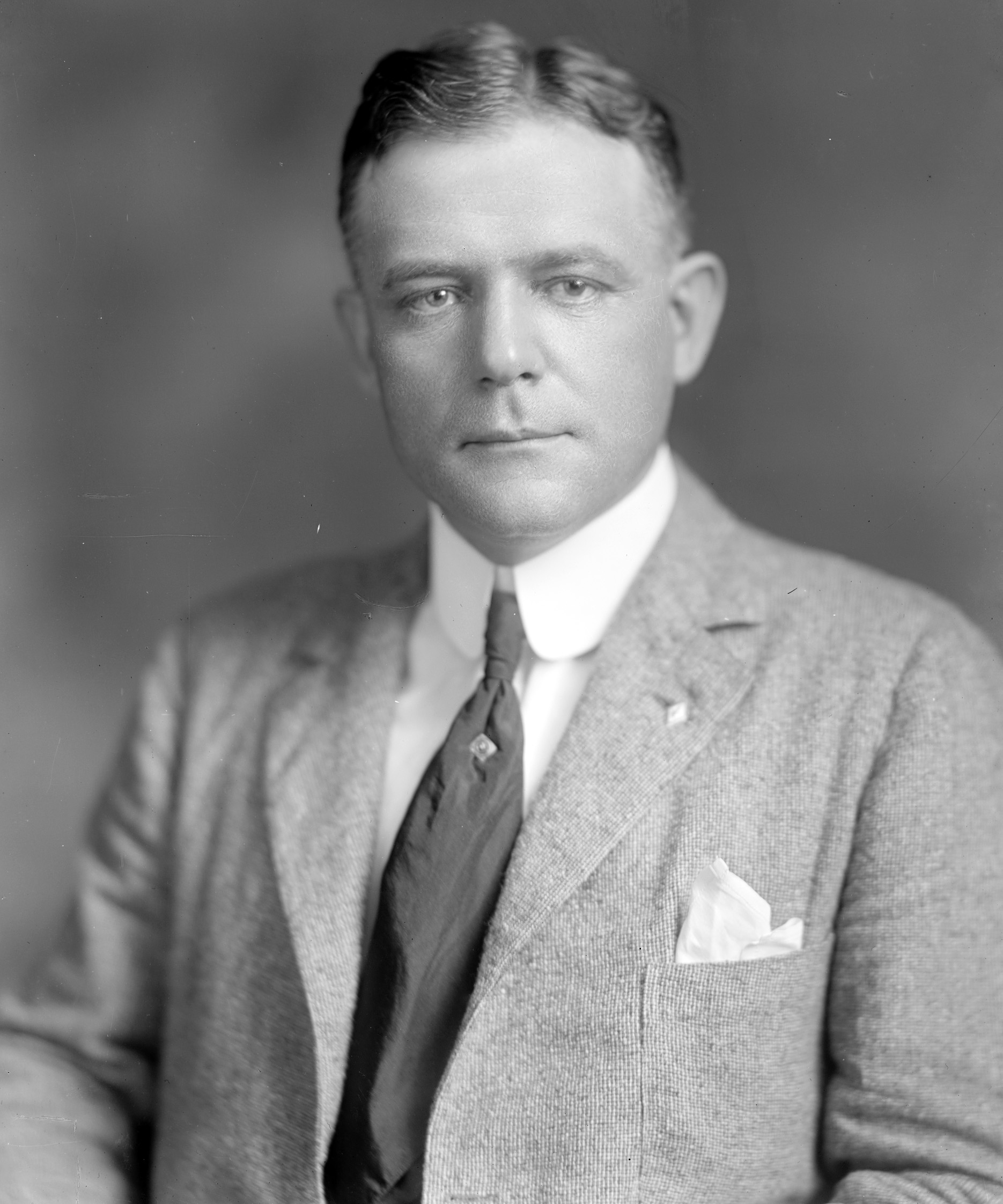 Oscar Keller, US Representative from Minnesota